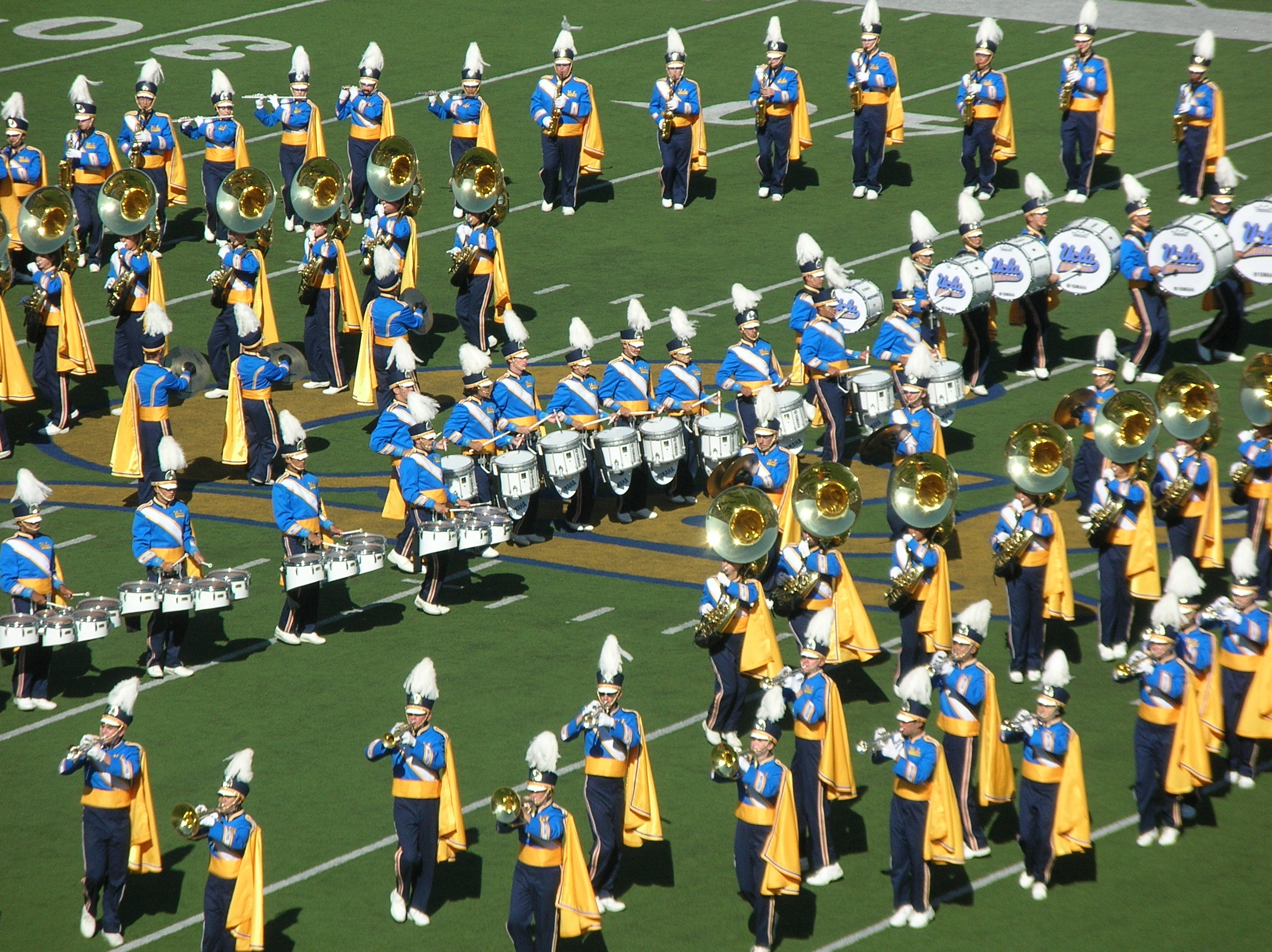 The UCLA Bruin Marching Band performing during halftime at a Cal home game against the UCLA Bruins. The Golden Bears won 41-20.